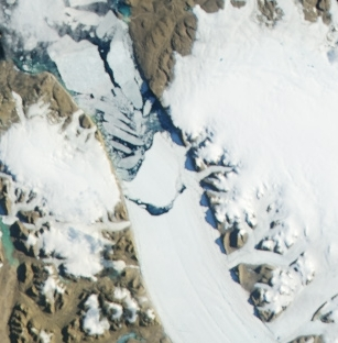 2012 07 16 Petermann Glacier calving event. Image taken from Moderate Resolution Imaging Spectroradiometer, or MODIS, on NASA’s Aqua satellite.